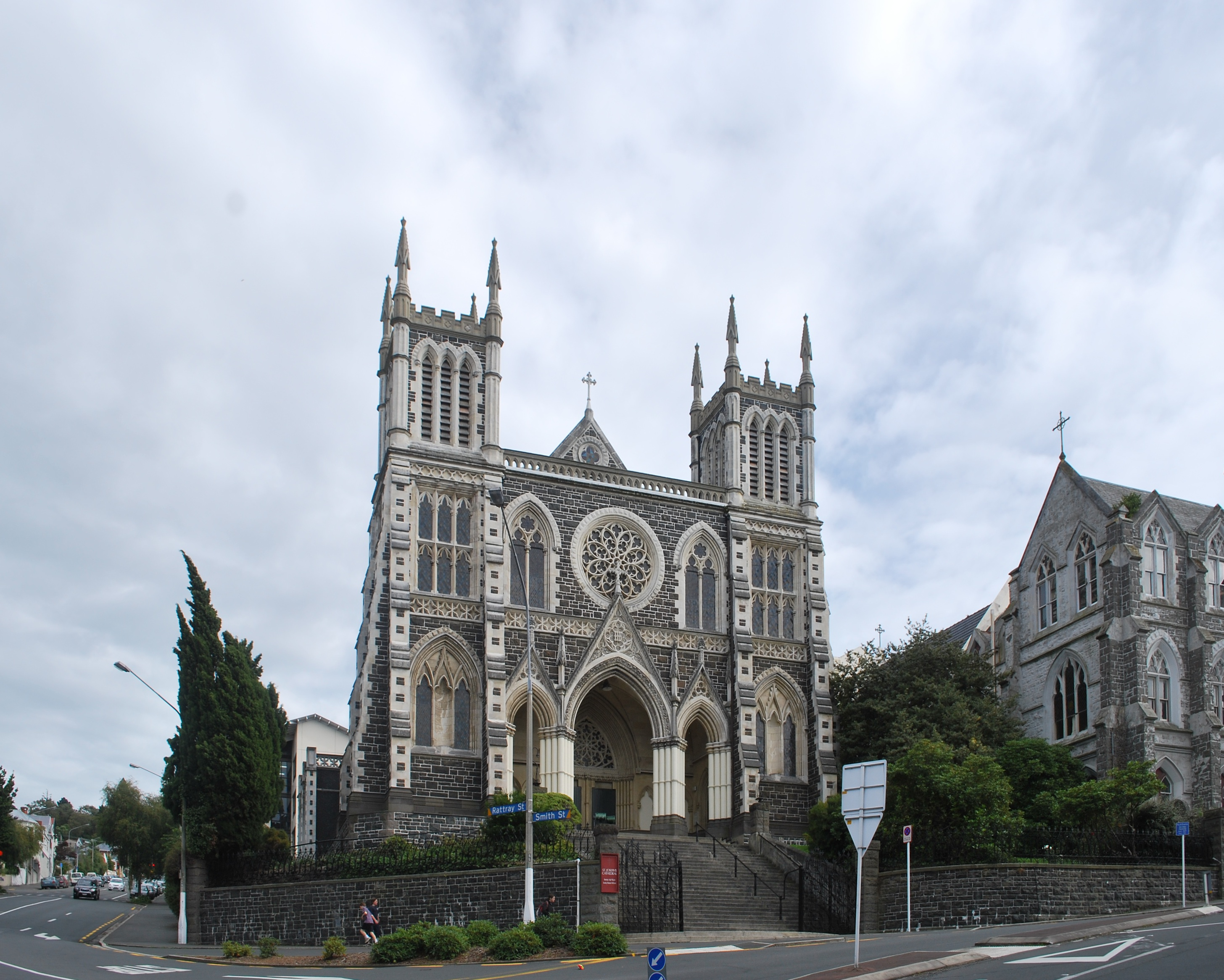 St Joseph's Cathedral in Dunedin, New Zealand